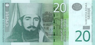 20 Serbian dinars (RSD) National Bank of Serbia (2006) issue